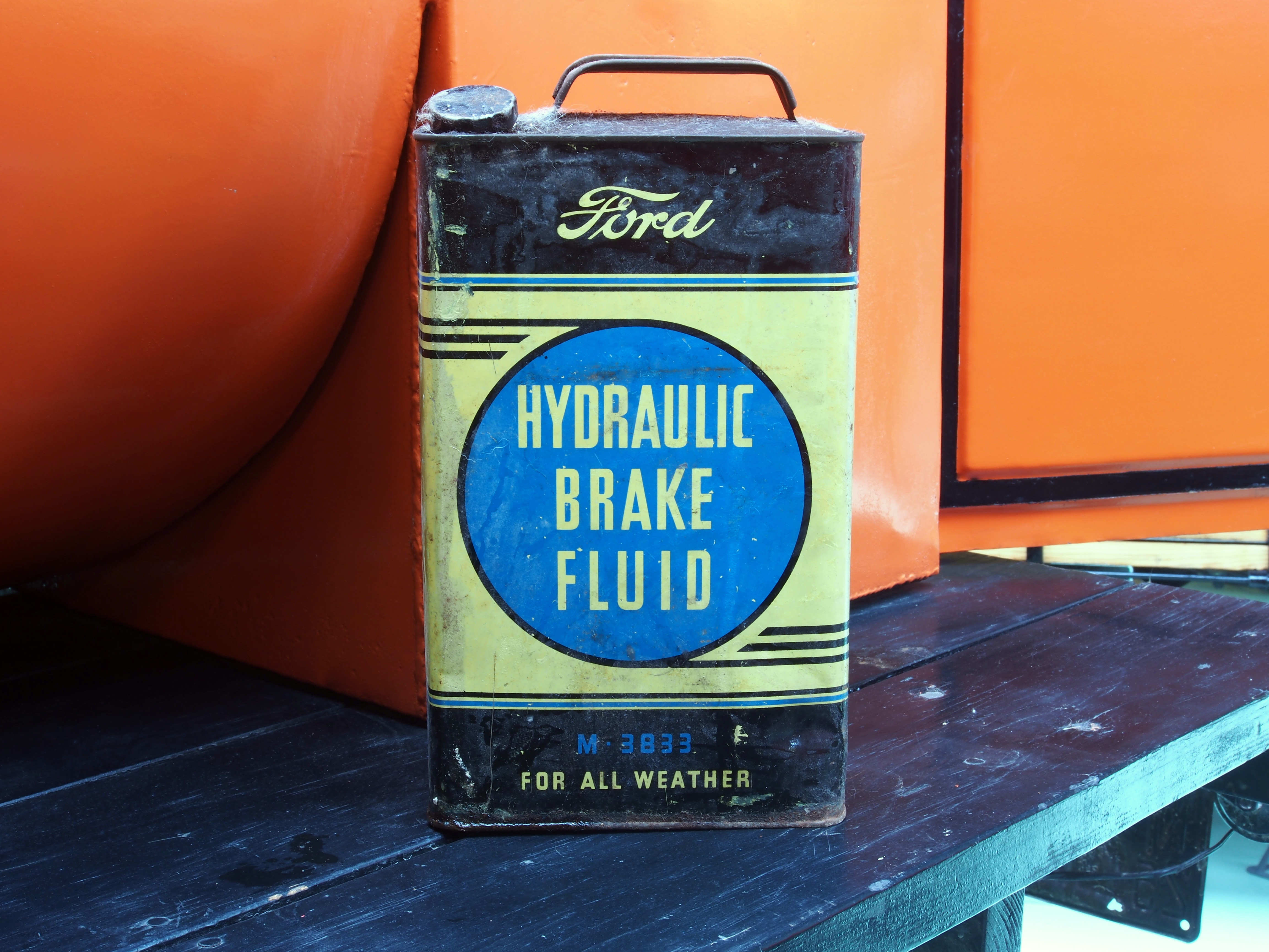 Photographed at the Den Hartogh Ford museum.